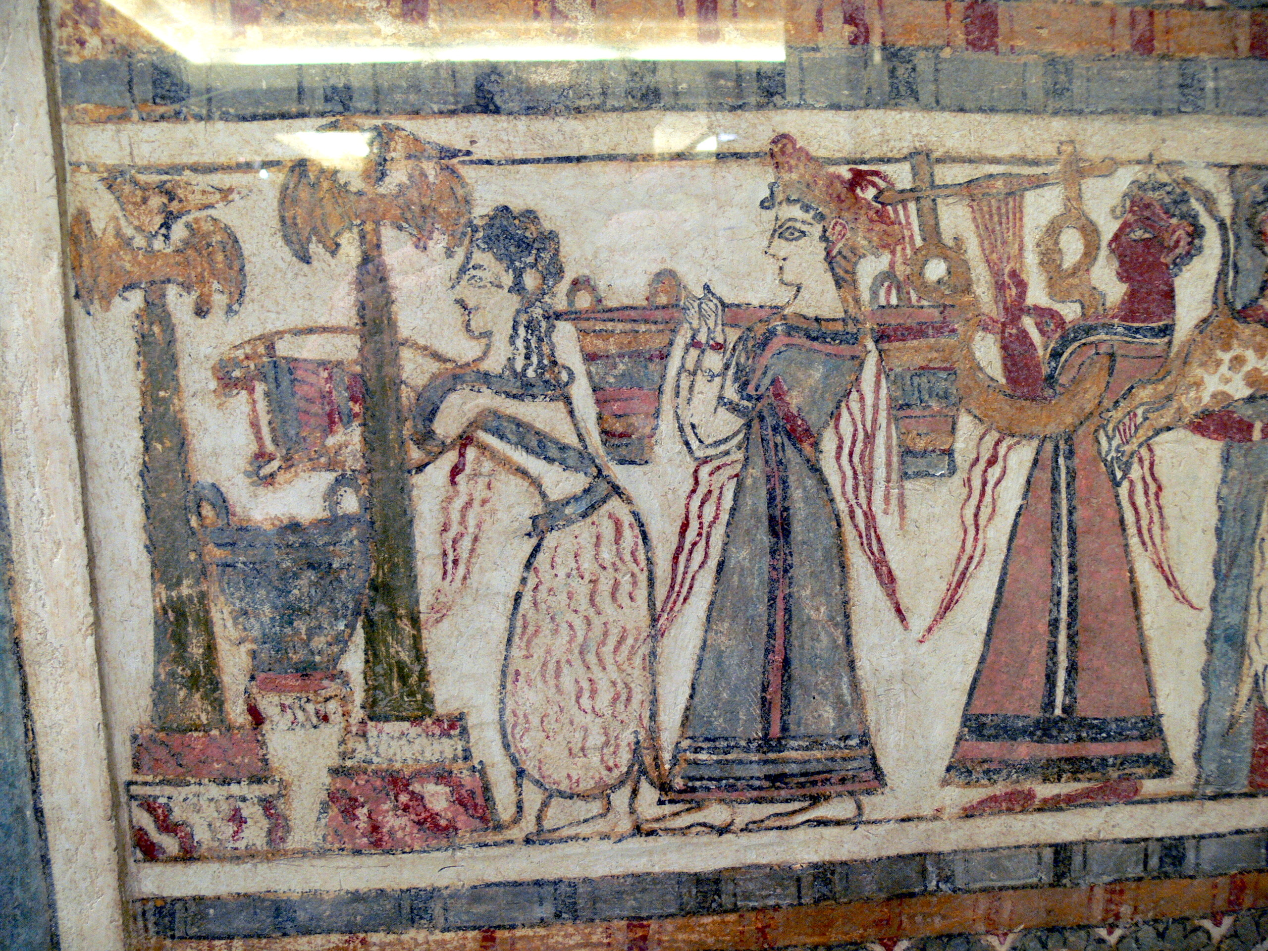 Archaeological Museum of Herakleion. Sarcophagus of Agia Triada ( 1600 - 1450 B.C.) - detail: Priestess sacrificing a liquid at an altar adorned with double axes. She is followed by another woman and a lyre-player.